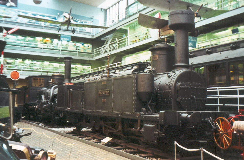 Steam locomotive Kladno - system Engerth, build 1855. National technical museum Praha 2006.